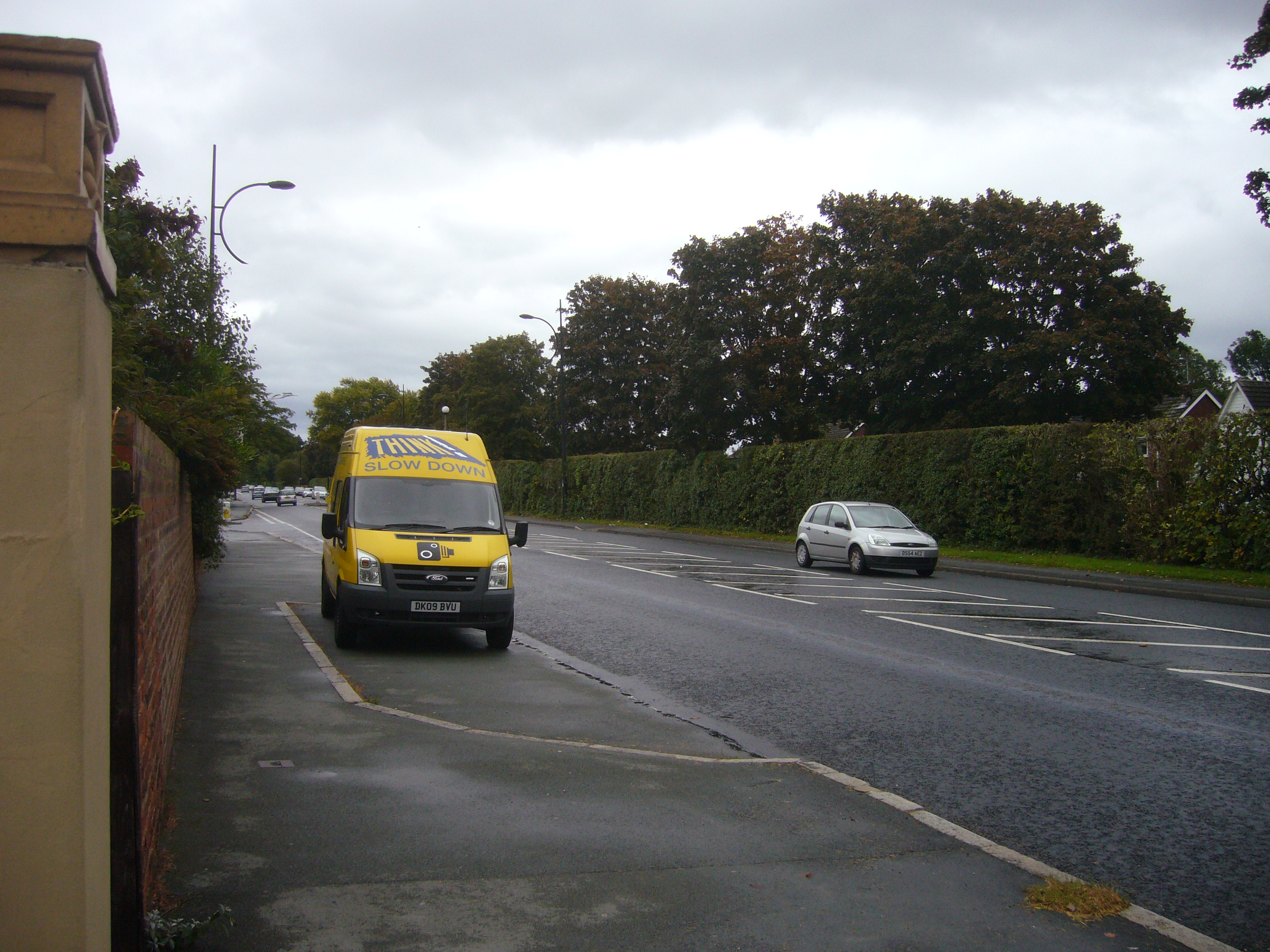 A speed-trap van parked in a lay-by, scanning passing motorists. Photograph was taken in the United Kingdom.